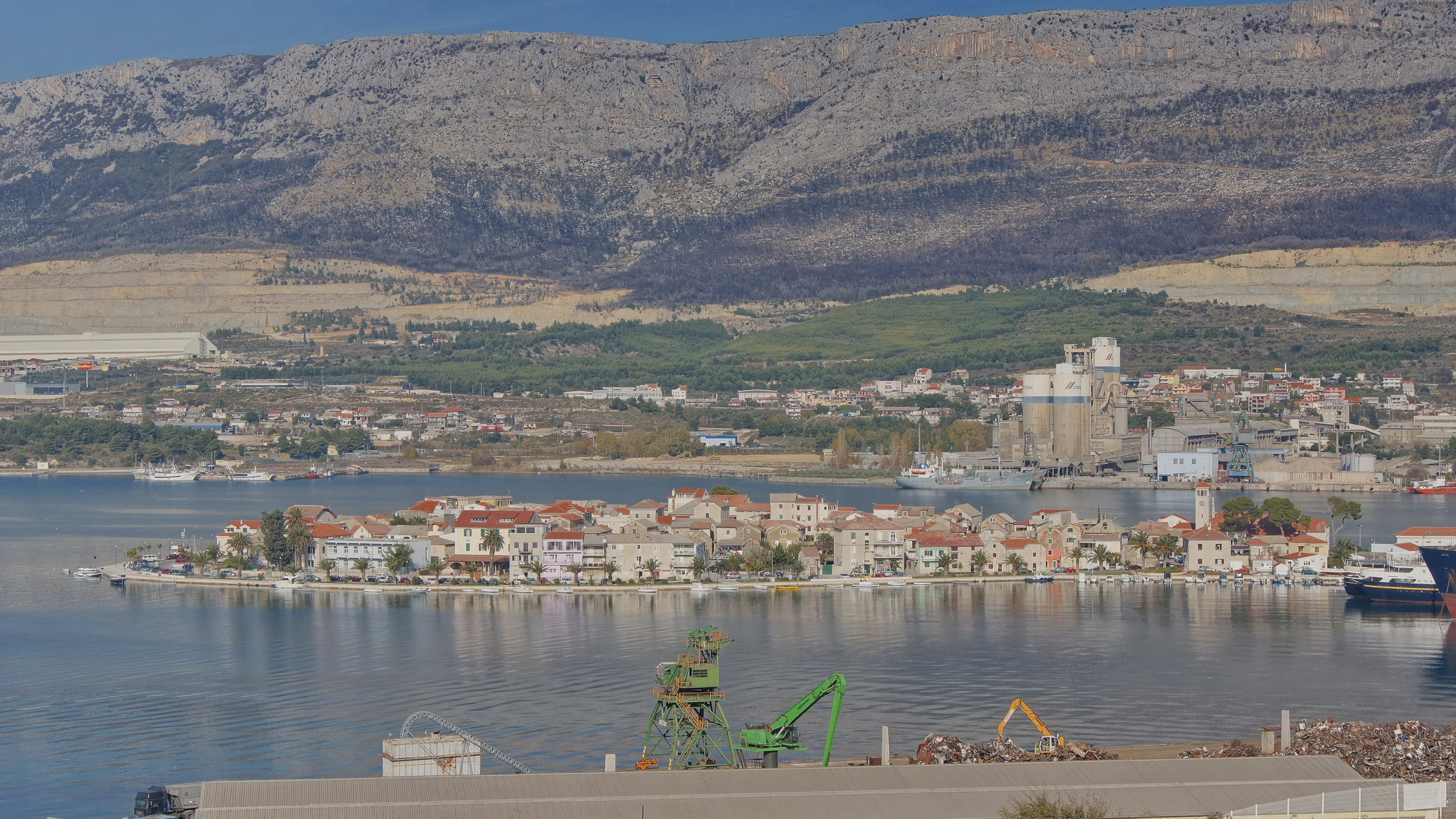 Vranjic, 2011-11-21, view from the south side